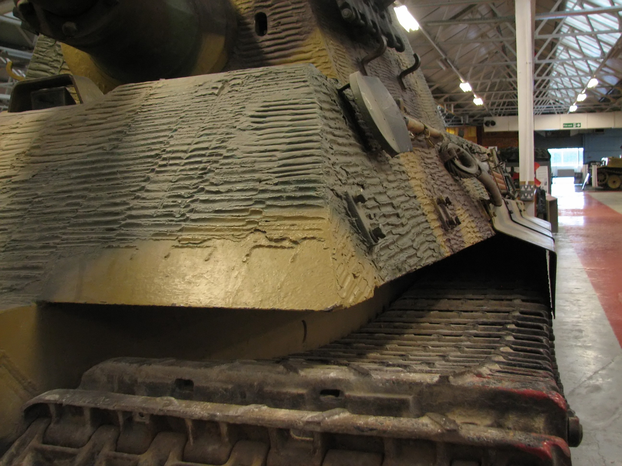 Close-up of Zimmerit on a Tiger II at Bovington Tank Museum